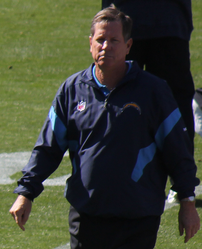 Norv Turner, the coach of the San Diego Chargers American football team.